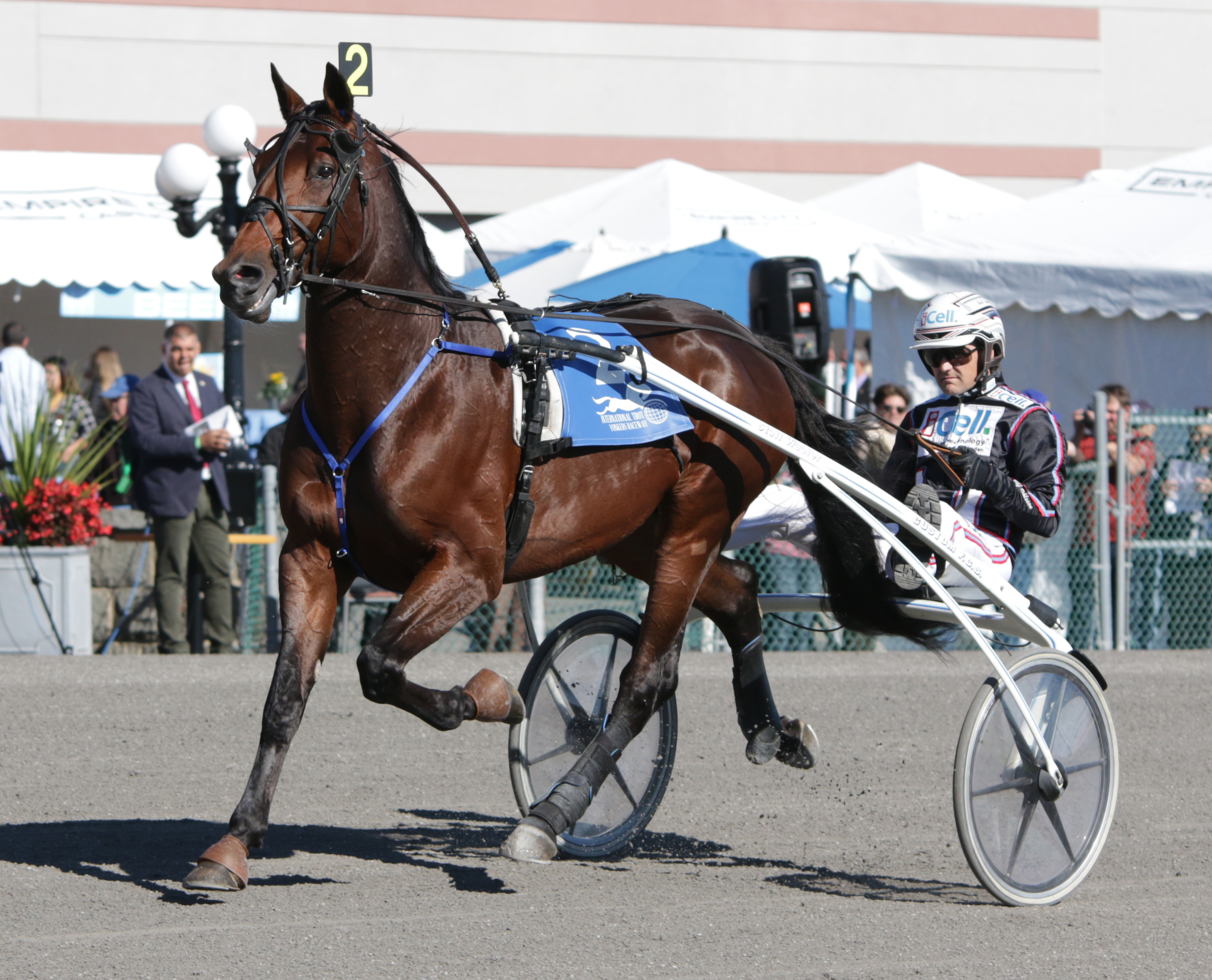 ...warming up before he won the $1,000,000 International Trot in New York